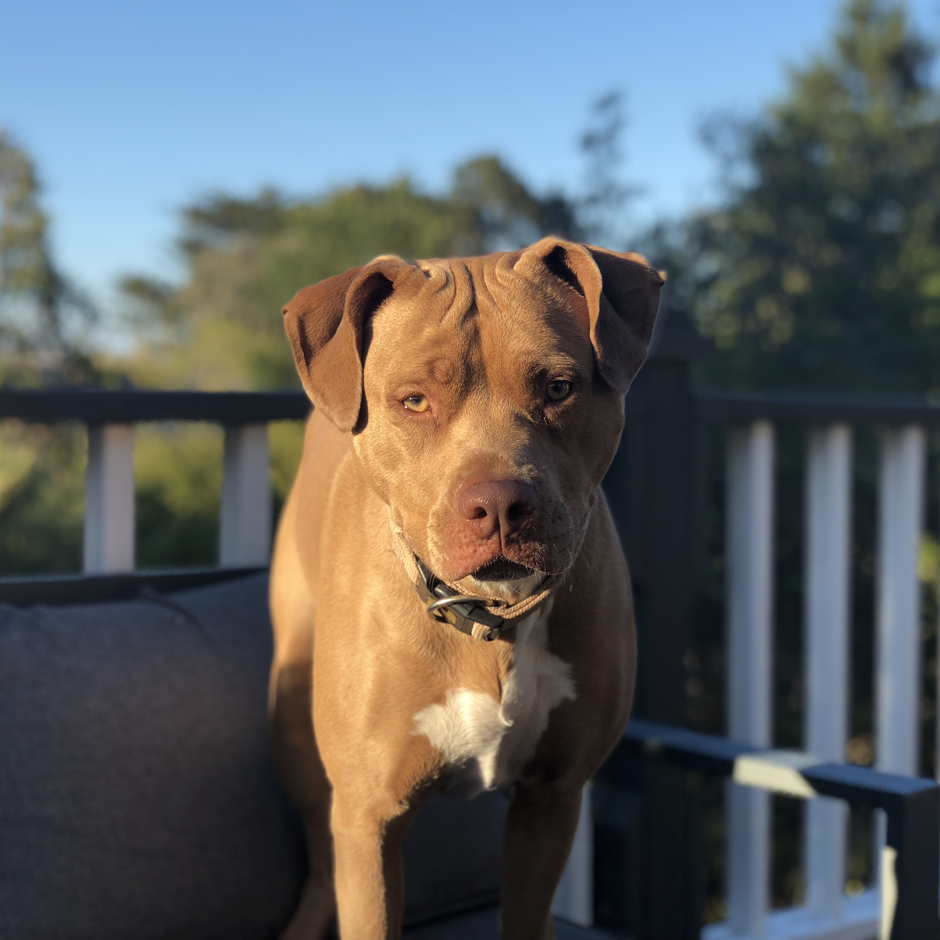 American Pit Bull Terrier standing. Colby Pit Bull.